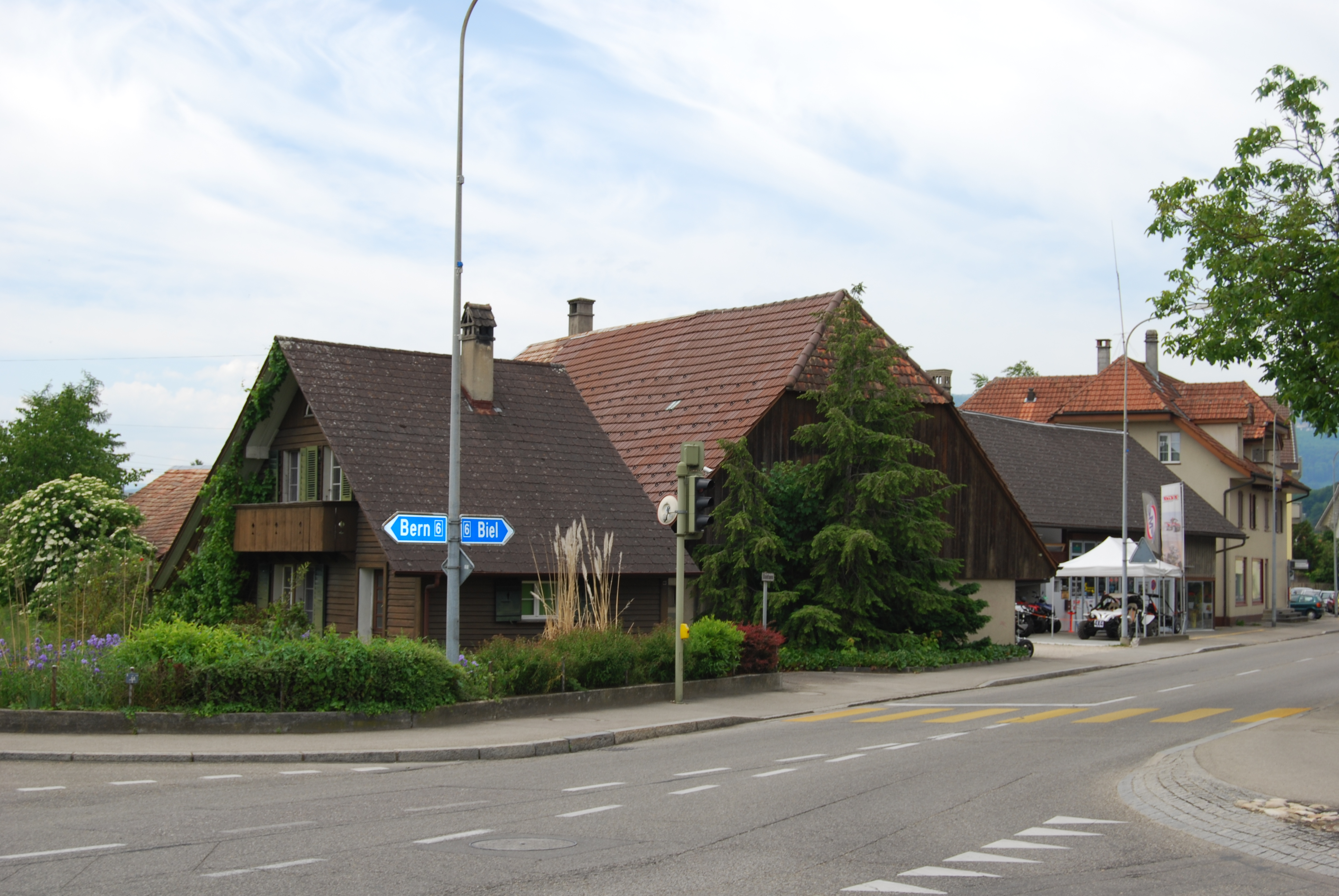 Aegerten, canton of Bern, SwitzerlandEsperanto: Aegerten, Kantono Berno, Svislando